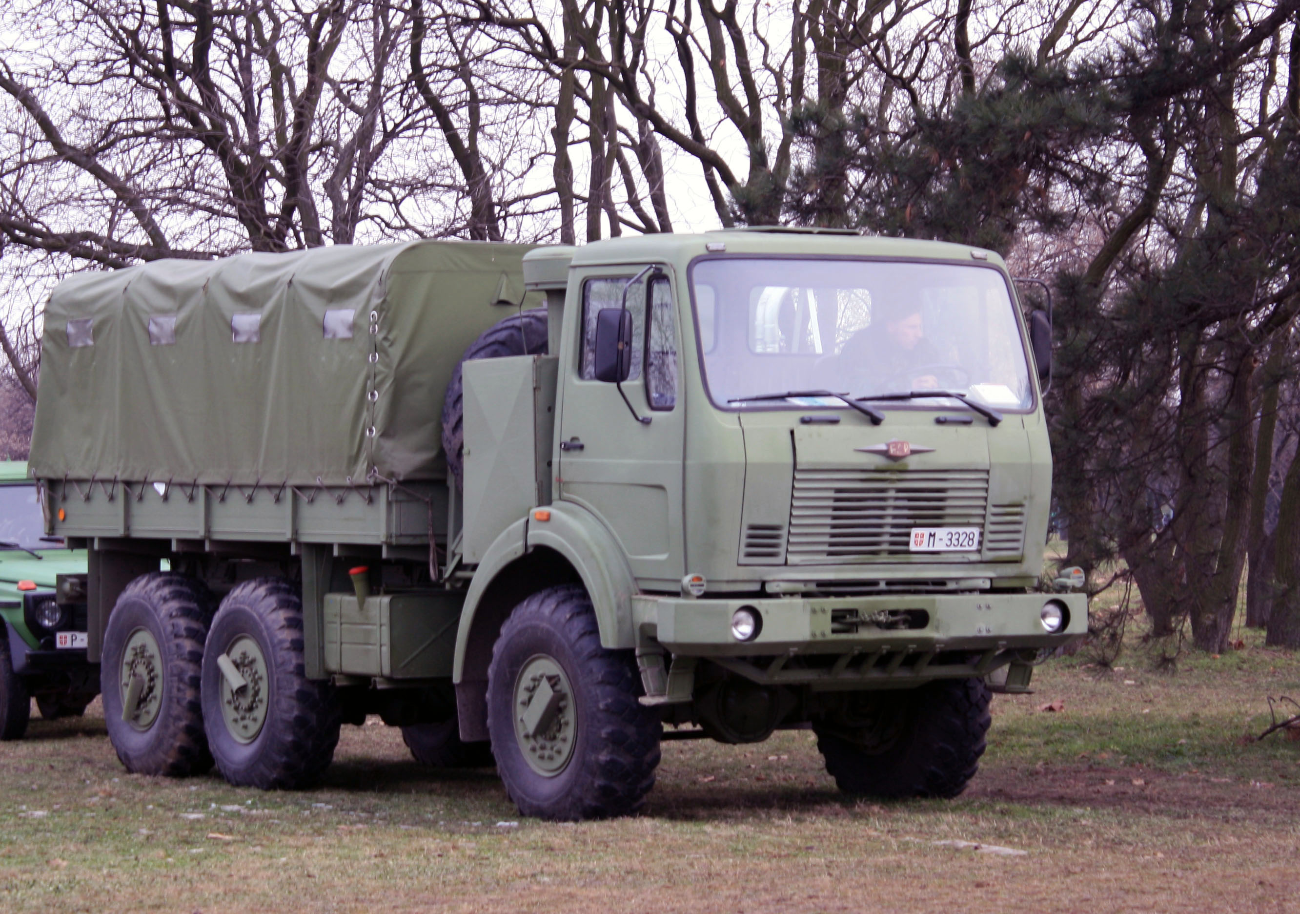 FAP 2026 BS/AV military truck of Serbian Army after military exercise "Ušće 2011